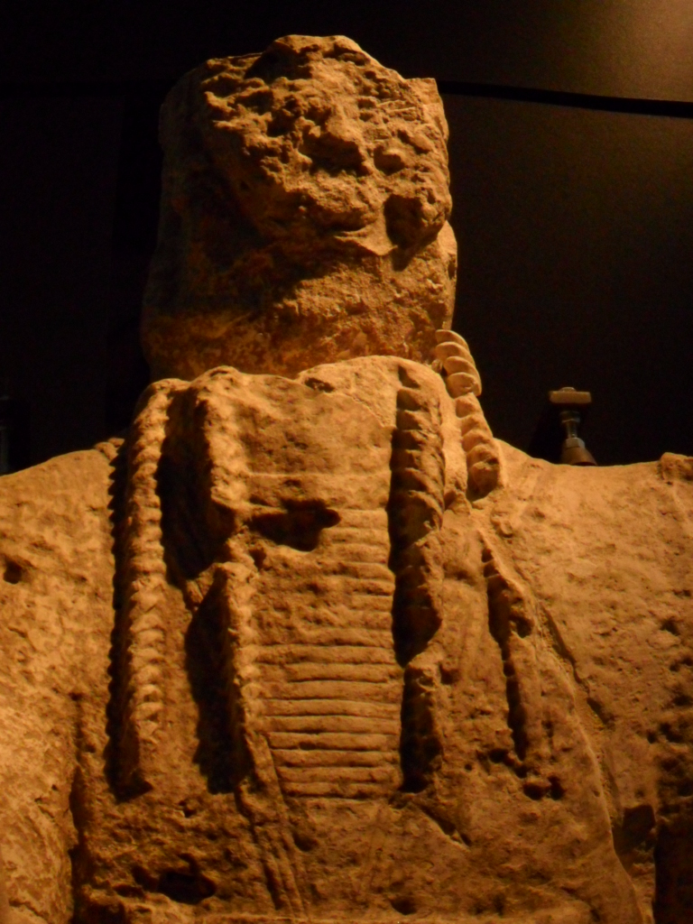 Monte Prama statue archer